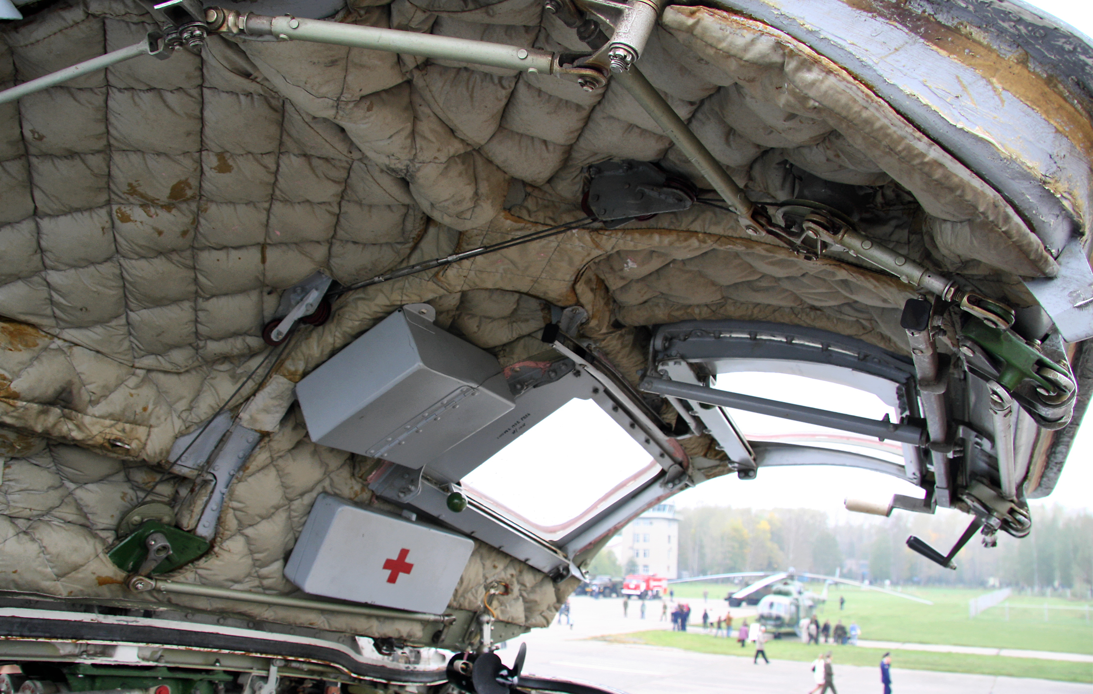 Cockpit of Tupolev Tu-22M3 bomber, cockpit hatch cover